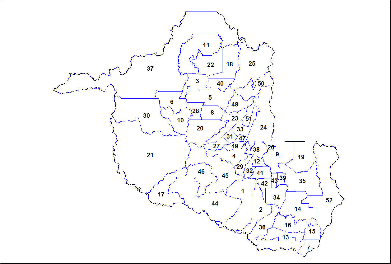 Map of the municipalities of the state of Rondonia, Brazil. Created by Rarelibra 13:26, 25 August 2006 (UTC) for public domain use. Created using MapInfo Professional v8.5 and various mapping resources.